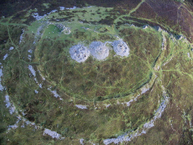 Foel Drygarn Hillfort, near to Crymych, Pembrokeshire/Sir Benfro, Great Britain. A Late Bronze Age-Early Iron Age hillfort in the Preseli Hills - three cairns at the summit.